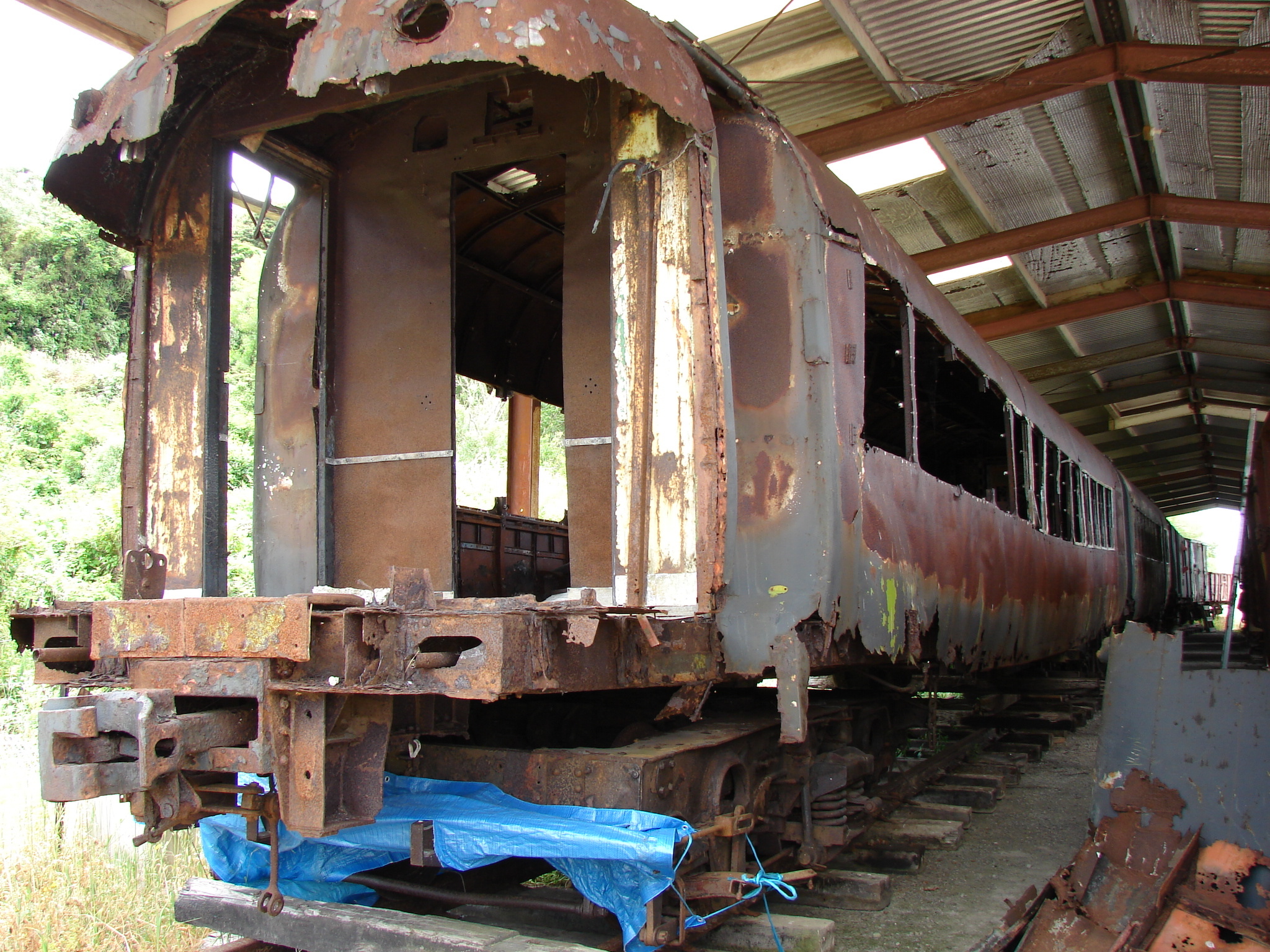 Damaged NZR RM 133 Drewry "twinset" modules in storage on "rotten row" at Pahiatua railway station for the Pahiatua Railcar Society. This unit was converted to AC class and was used for fire crew training at Auckland International Airport where it was burnt out. Photographed by Matthew25187 on 2007-12-16.